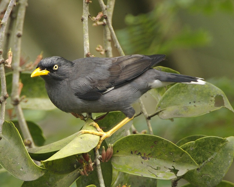 Javan Myna, Residential Garden, Merryn Road, Singapore.